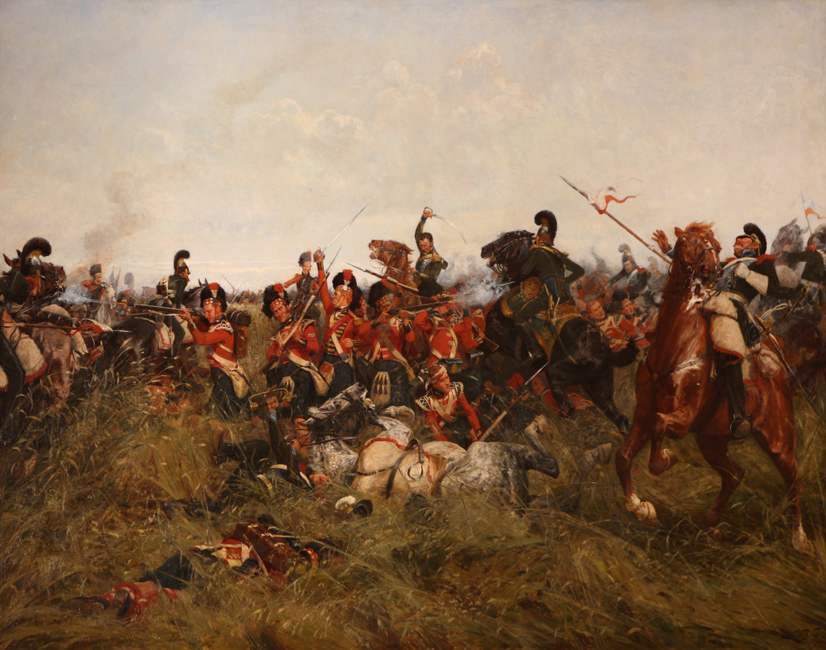 The Battle of Quatre Bras, 16th June 1815, between Wellington's Anglo-Dutch army and the left wing of the Armée du Nord under Marshal Michel Ney, was fought near the strategic crossroads of Quatre Bras. At the height of the Battle the French Cavalry almost broke through Wellington's positions. One Regiment of the 69th was decimated and lost its colour (a large flag mounted on a pike) as it tried to form square. The Black Watch received a terrible mauling by General Pires Lancers, as it formed square. However, the Battle of Quatre Bras was of great strategic importance as it allowed Wellington to triumph over Napoleon at Waterloo days later. The artist, William Barnes Wollen, is highly regarded for his battle paintings of the Napoleonic era.